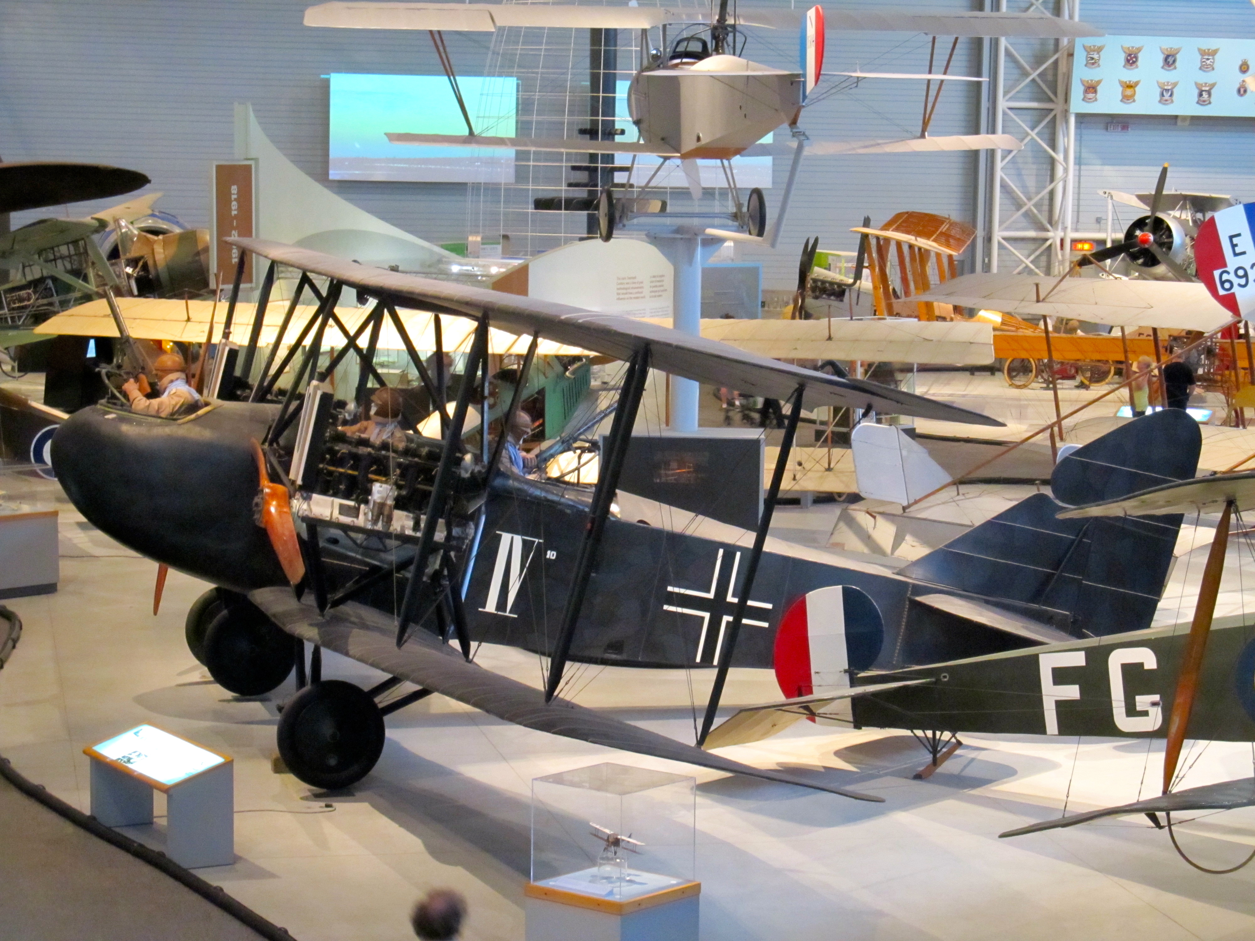 AEG G.IV at the Canadian Air and Space Museum, Ottawa.